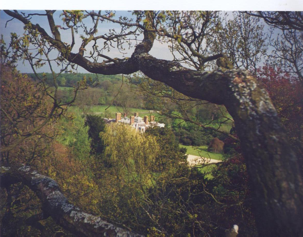 Bourne House, East Woodhay. Photo taken spring 1997, by R. W. de Salis.